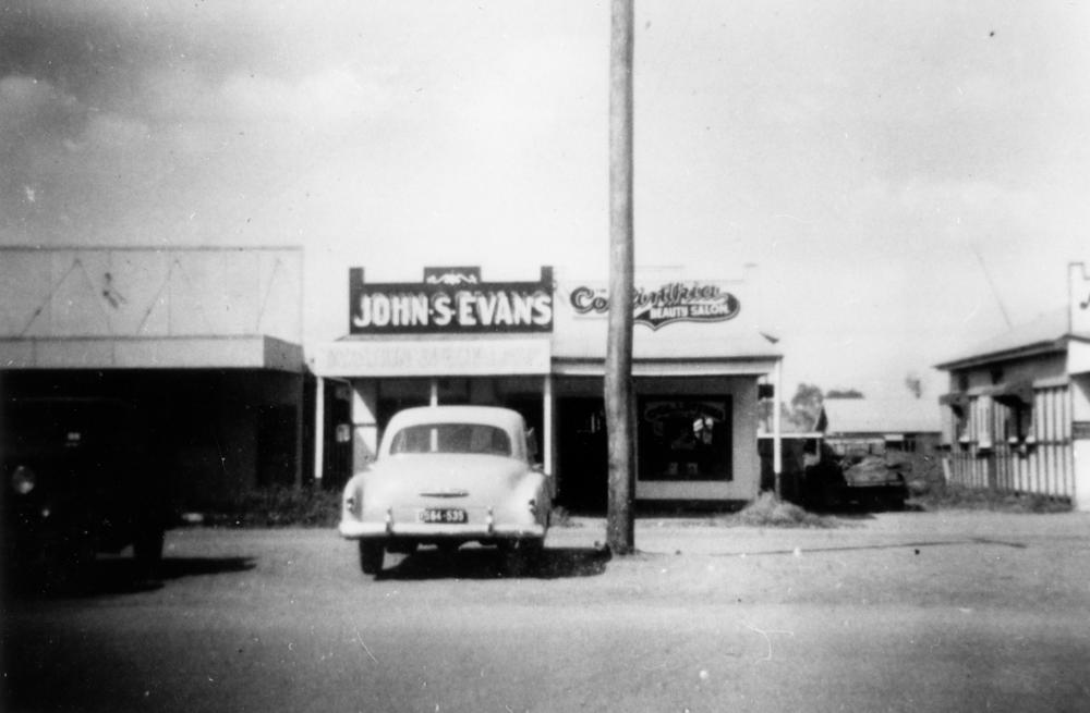 Small businesses in Biloela, 1949 Main Street of Biloela in 1949. (Description supplied with photograph).